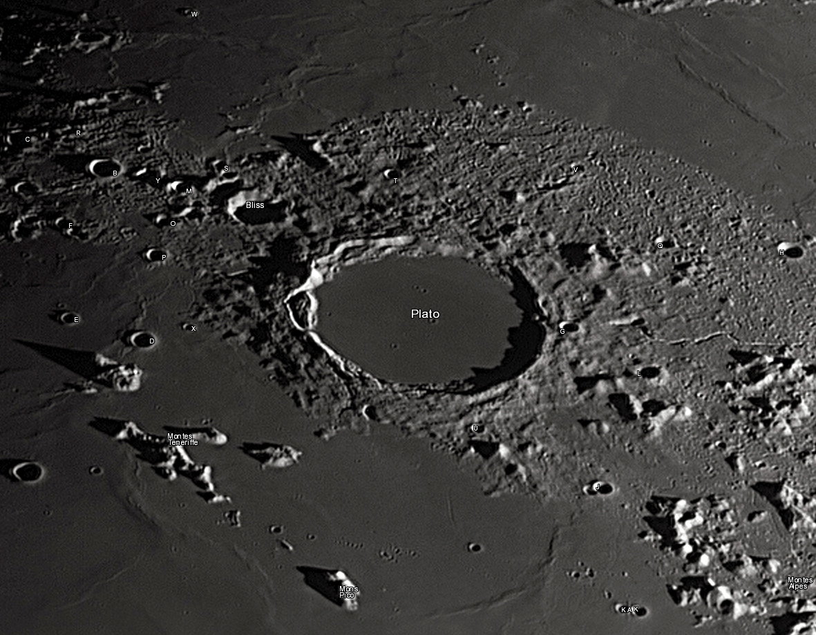 Plato lunar crater as seen from Earth with satellite craters labeled